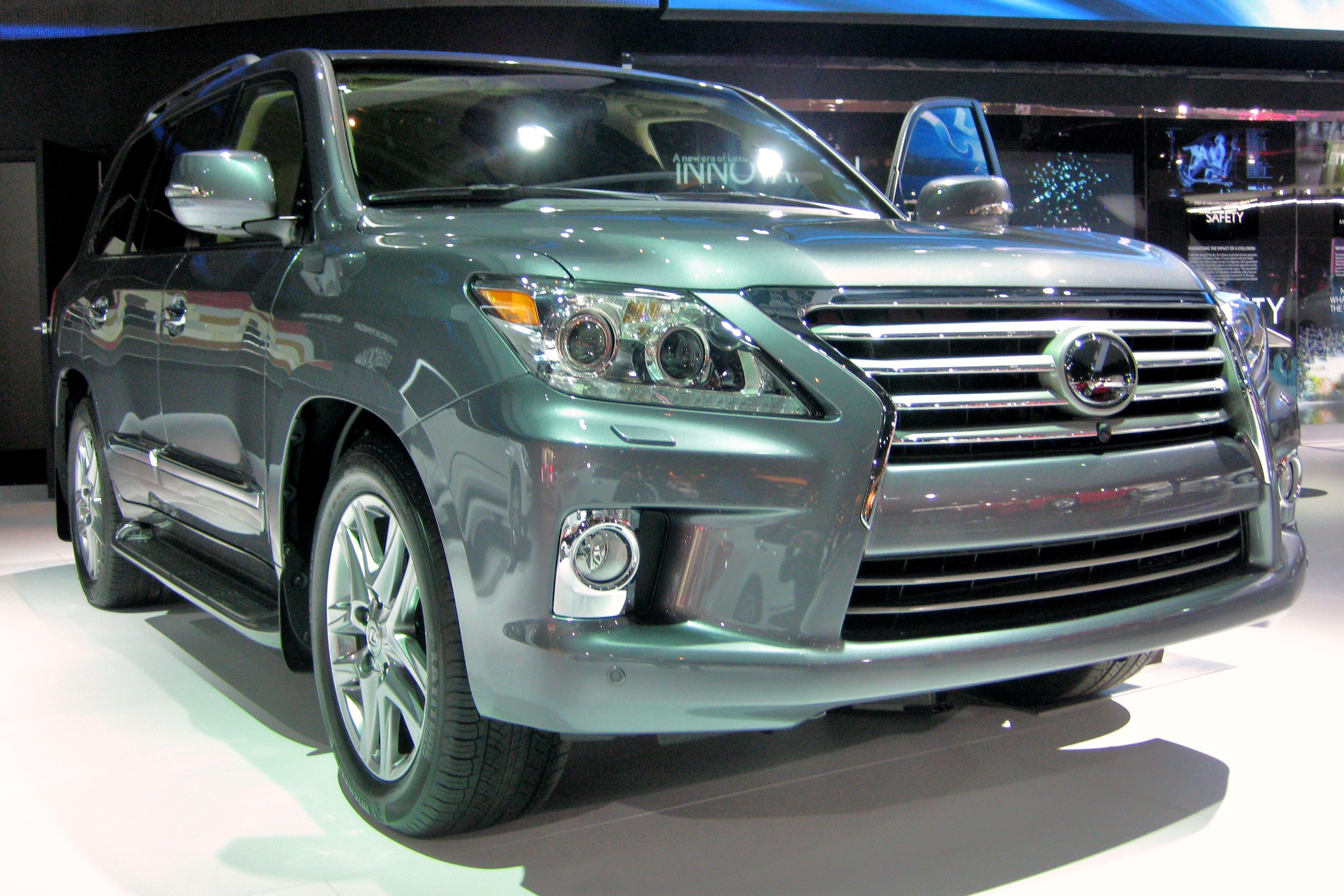 For more info and images please check